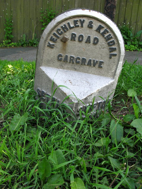 Gargrave Milepost Beside the A65 Keighley & Kendal Road, Settle 10 3/4 miles, Kendal 40 miles, and Skipton 4 3/4 miles, Keighley 14 miles.